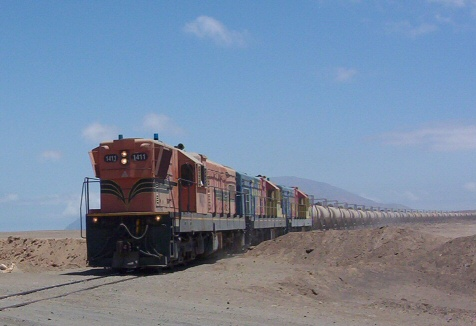 Train of sulfuric acid heading for the port of Mejillones. Locomitive EMD GR12U. Ferrocarril de Antofagasta a Bolivia (Antofagasta - Bolivia Railroad Company).